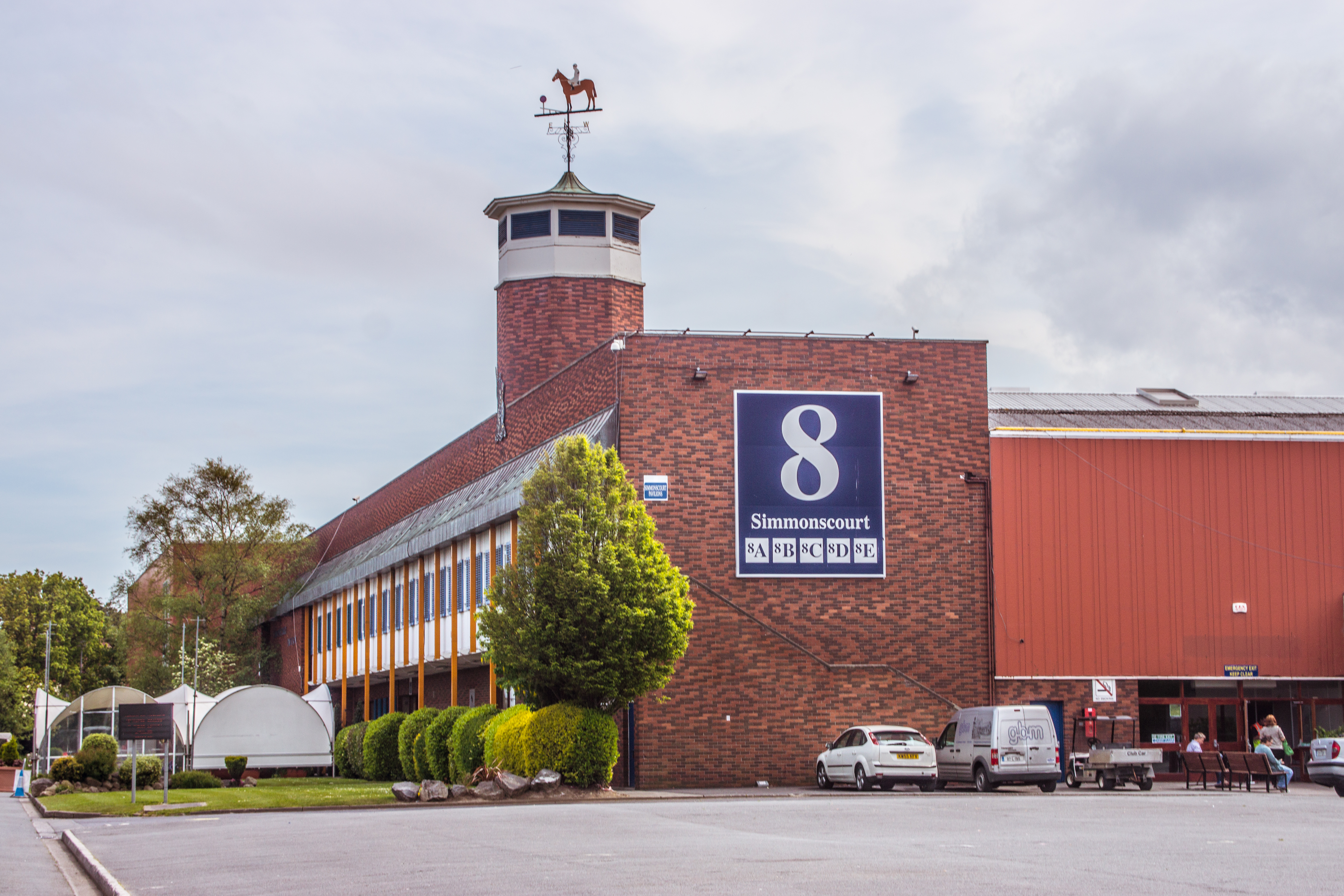 The RDS Simmonscourt